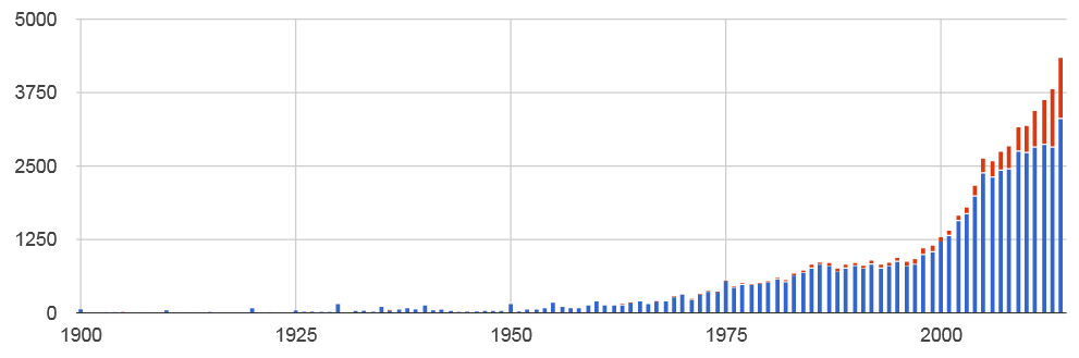 Board games published by year 1900-2014; board game expansions are in red. Based on BGG's database and data from